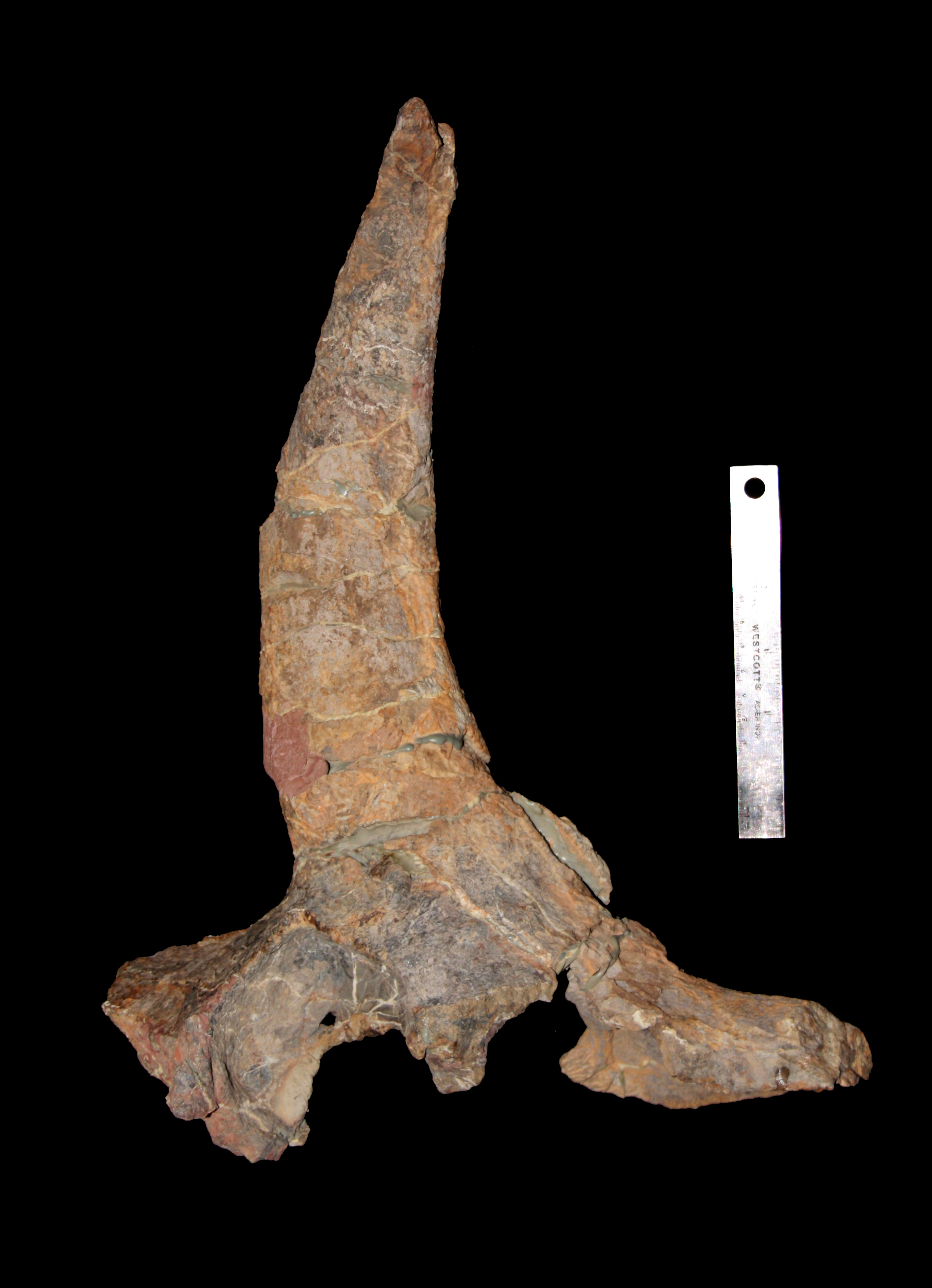 Agujaceratops mariscalensis (Dinosauria: Ceratopsidae: Chasmosaurinae) postorbital horn from the WPA quarries, Aguja Formation (Late Cretaceous: Campanian) Big Bend National Park, West Texas. From the University of Texas Austin collections. Photo by Nick Longrich.